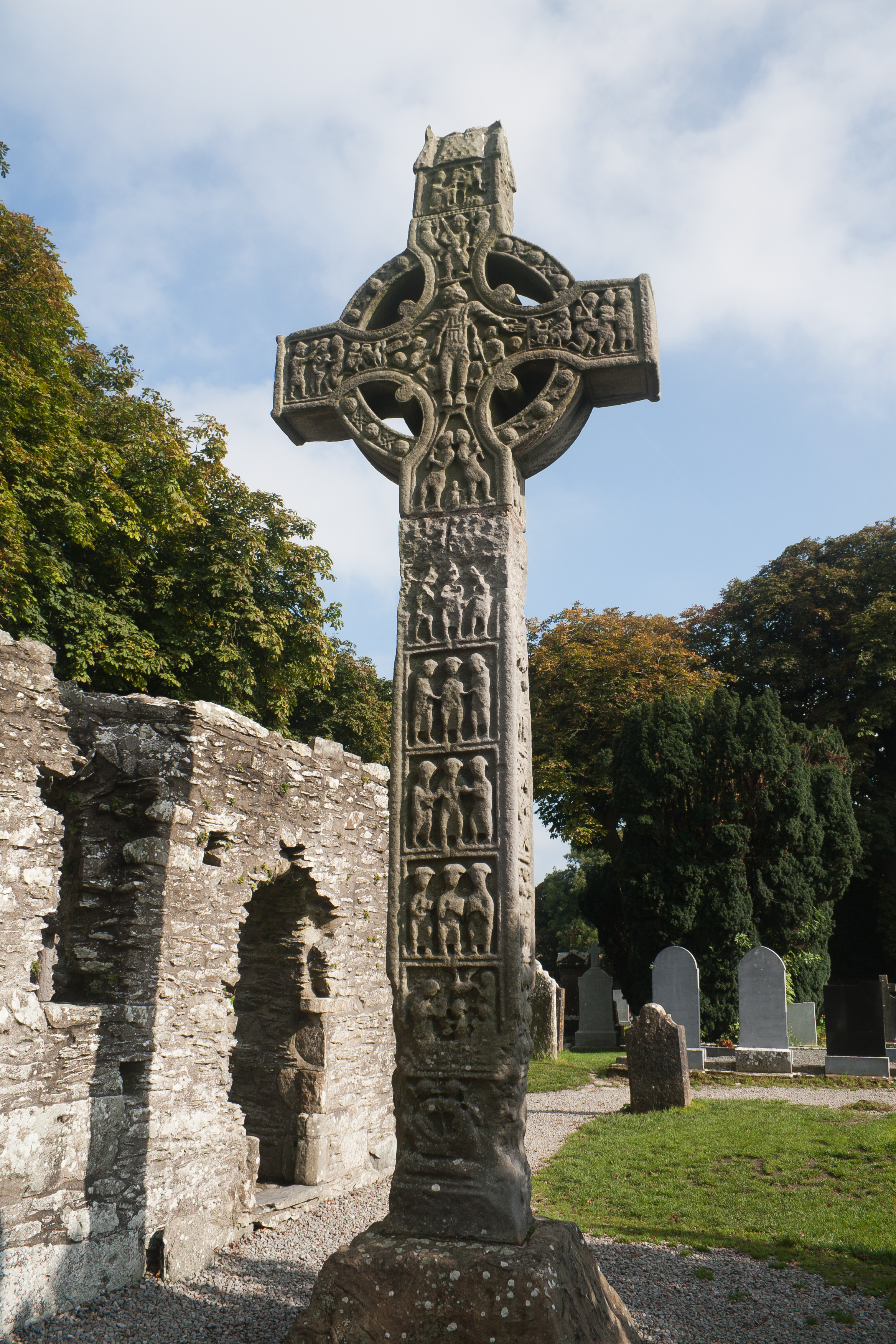 West face of the west cross at Monasterboice. This is part of the ensemble that is protected as national monument #94 in state care.